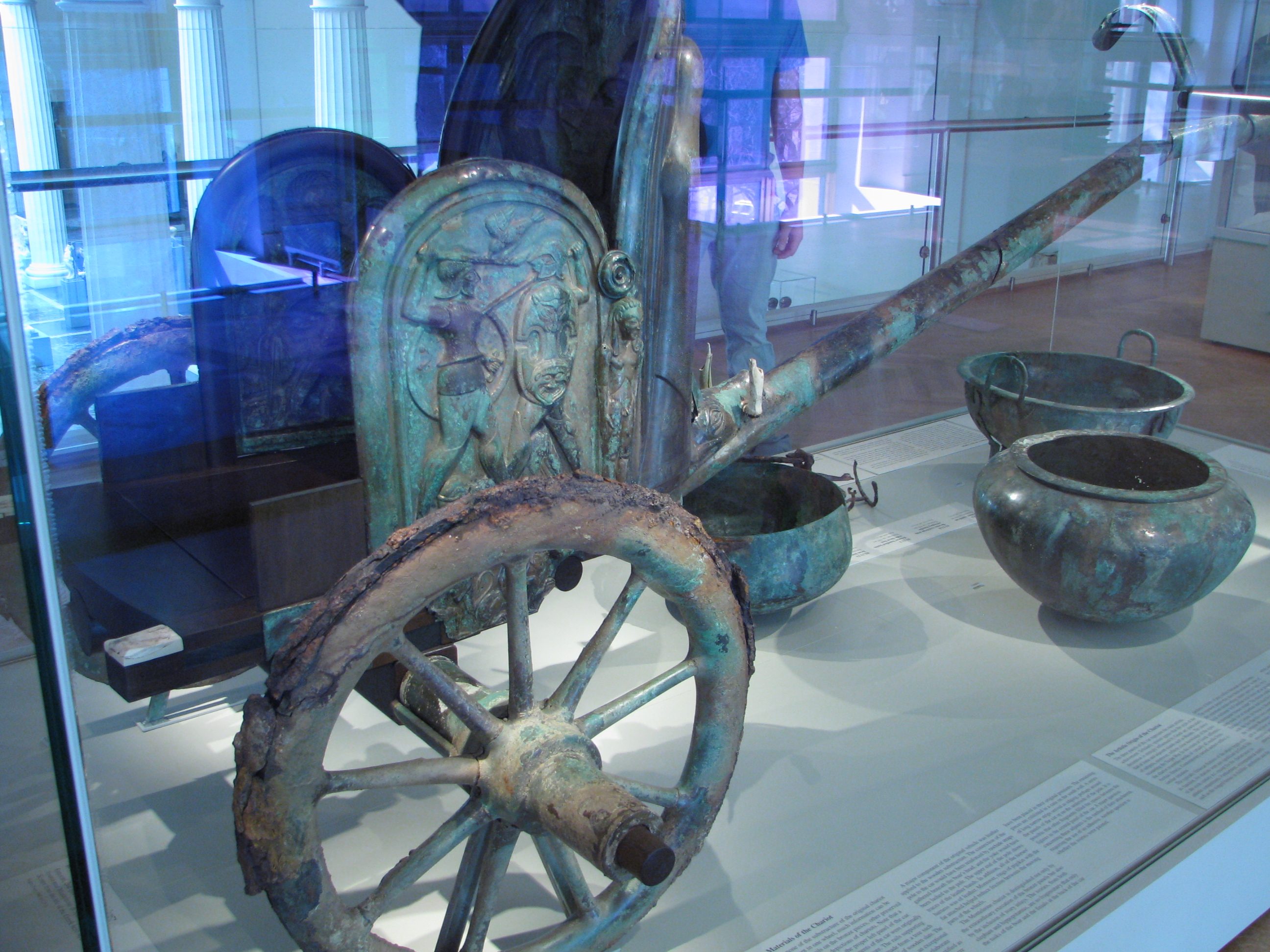 Ancient Etruscan chariot, 2nd quarter of the 6th century B.C., Met museum.